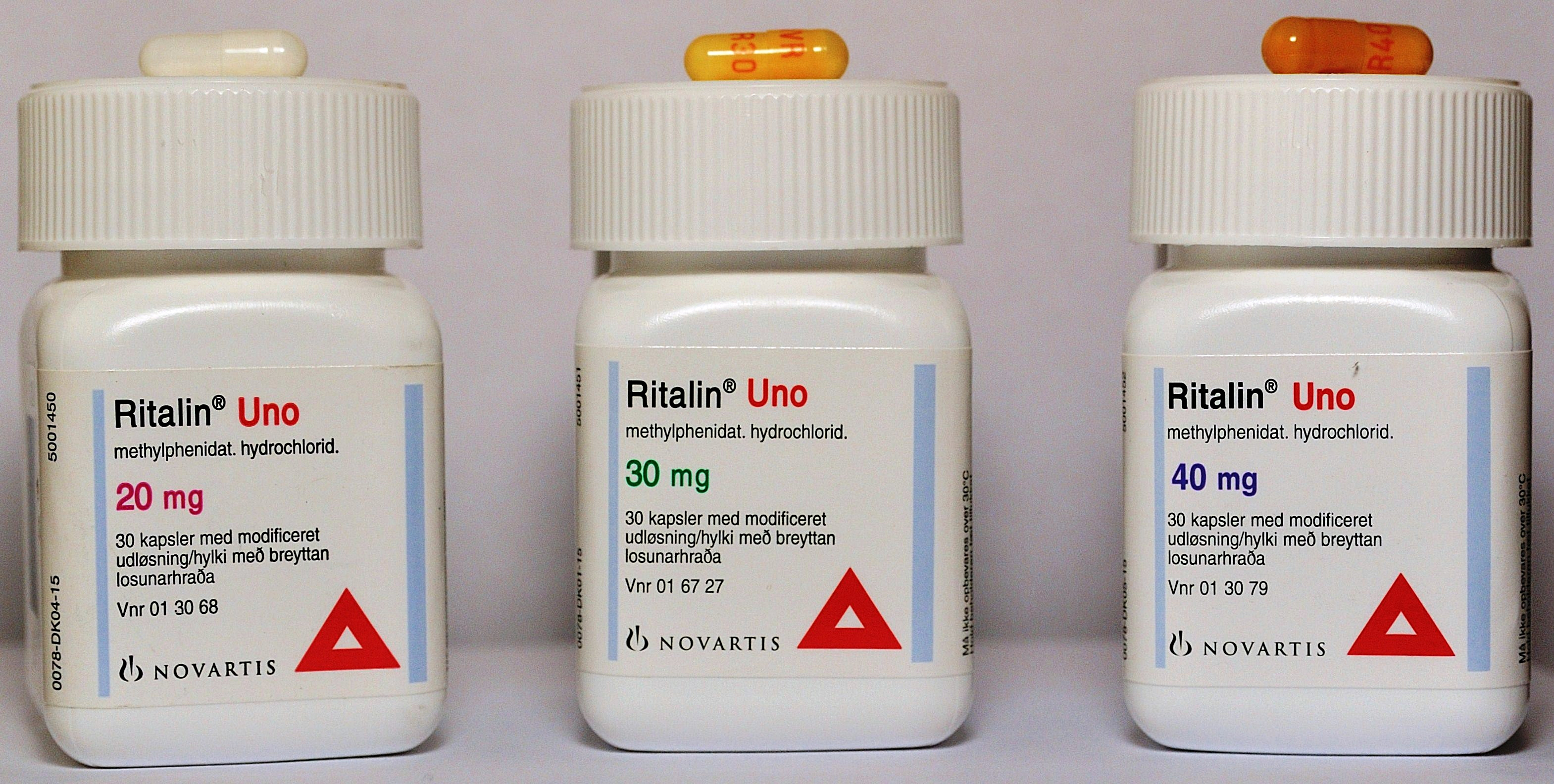 Ritalin (Danish packaging)